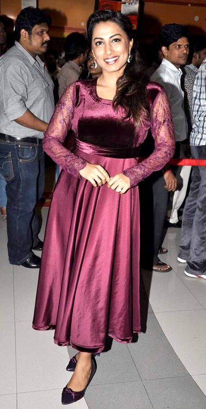 Marathi film actress Kranti Redkar at the premier of her film No Entry Pudhe Dhoka Aahe (2012).